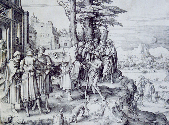 The Return of the Prodigal Son